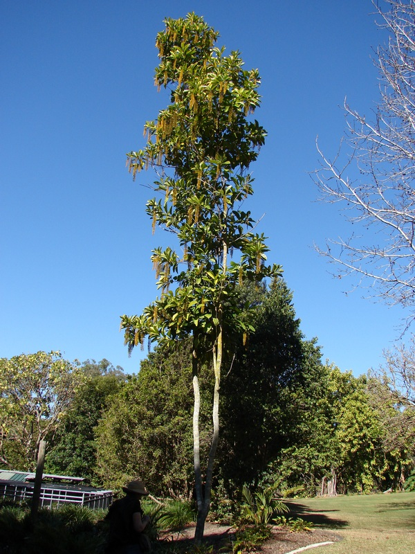 Lophanthera lactescens Native to Brazil Location: Mt. Coot-tha Botanic garden, Australia QLD